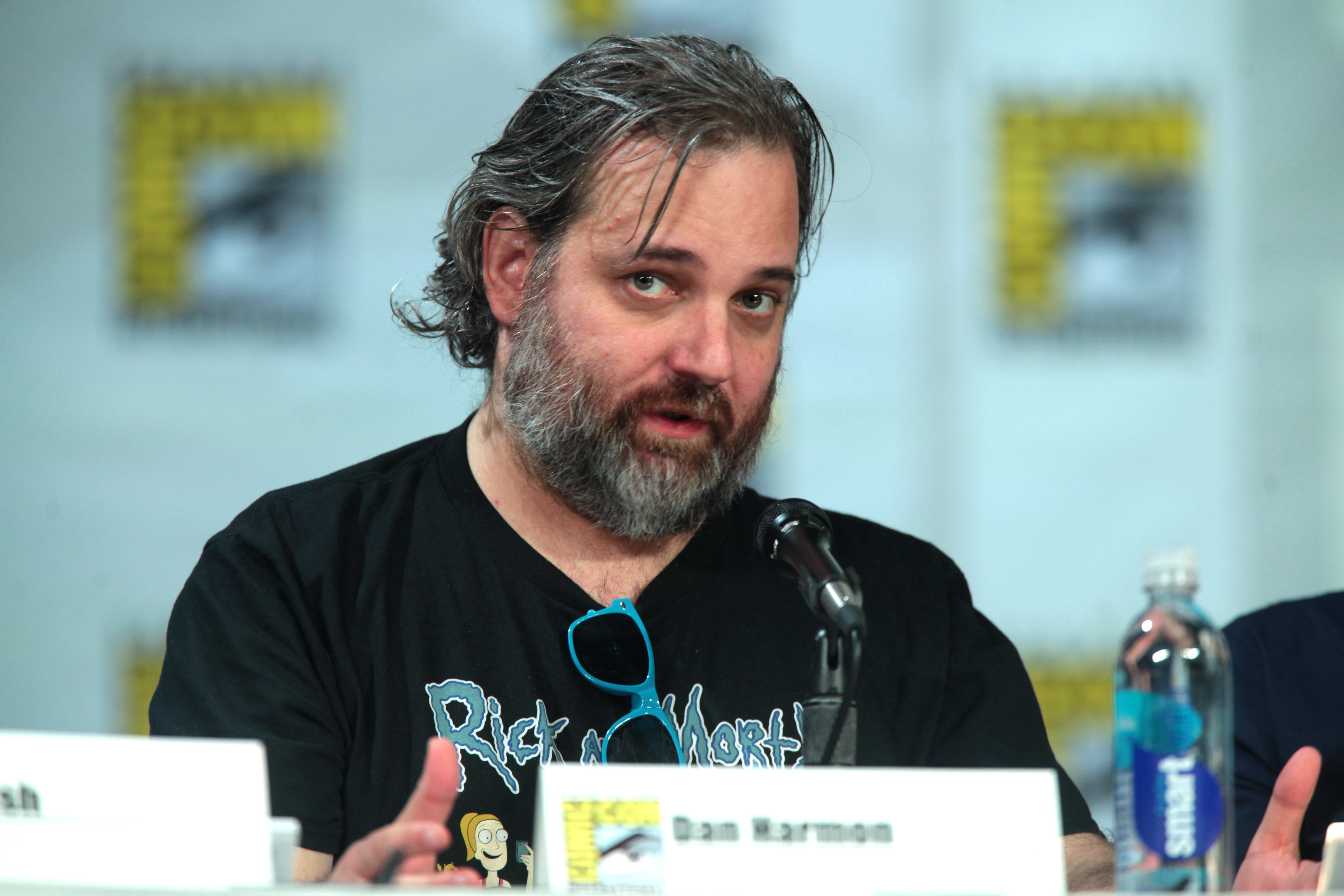 Dan Harmon speaking at the 2014 San Diego Comic Con International, for "Community", at the San Diego Convention Center in San Diego, California.